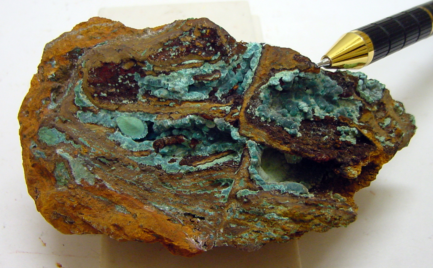 Aurichalcite. No locality given. Mineral collection of Bringham Young University Department of Geology, Provo, Utah. Photograph by Andrew Silver. BYU index 6-9049, (ZnCu)_5(CO_3)_2(OH)_6.